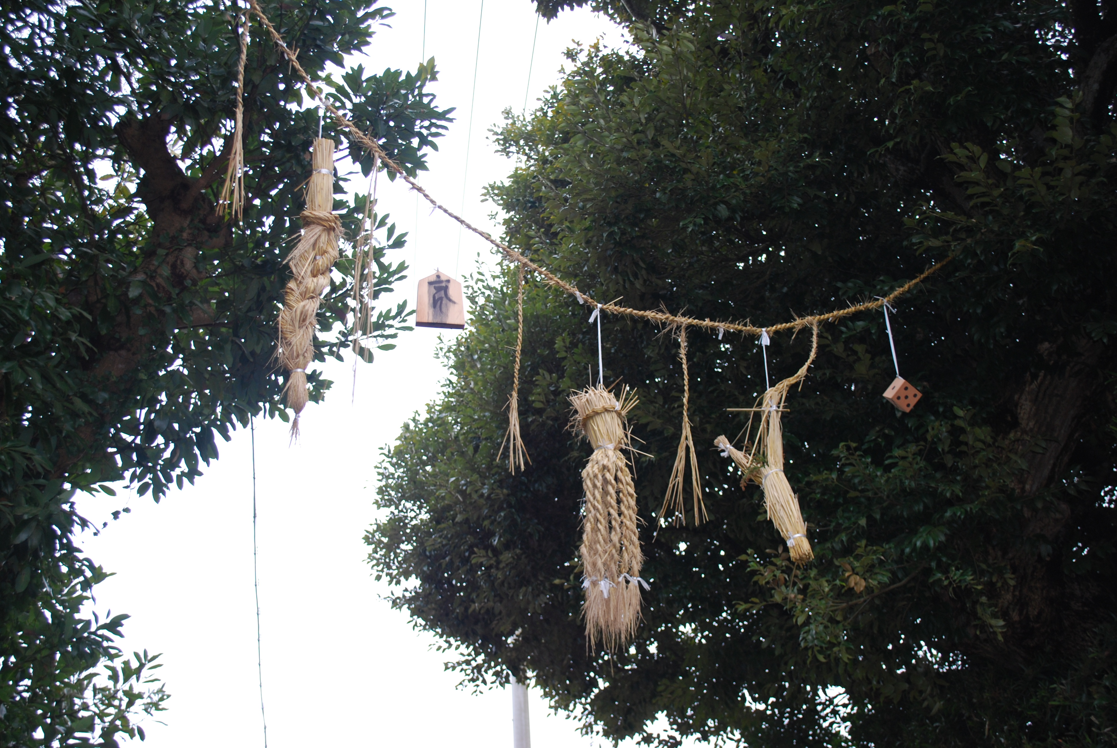 Thuji-kiri.The decoration of the crossroads limit. The dice, a sake barrel, a kite, a wooden tally, a sword.Obama-cho,Choshi-city,Japan